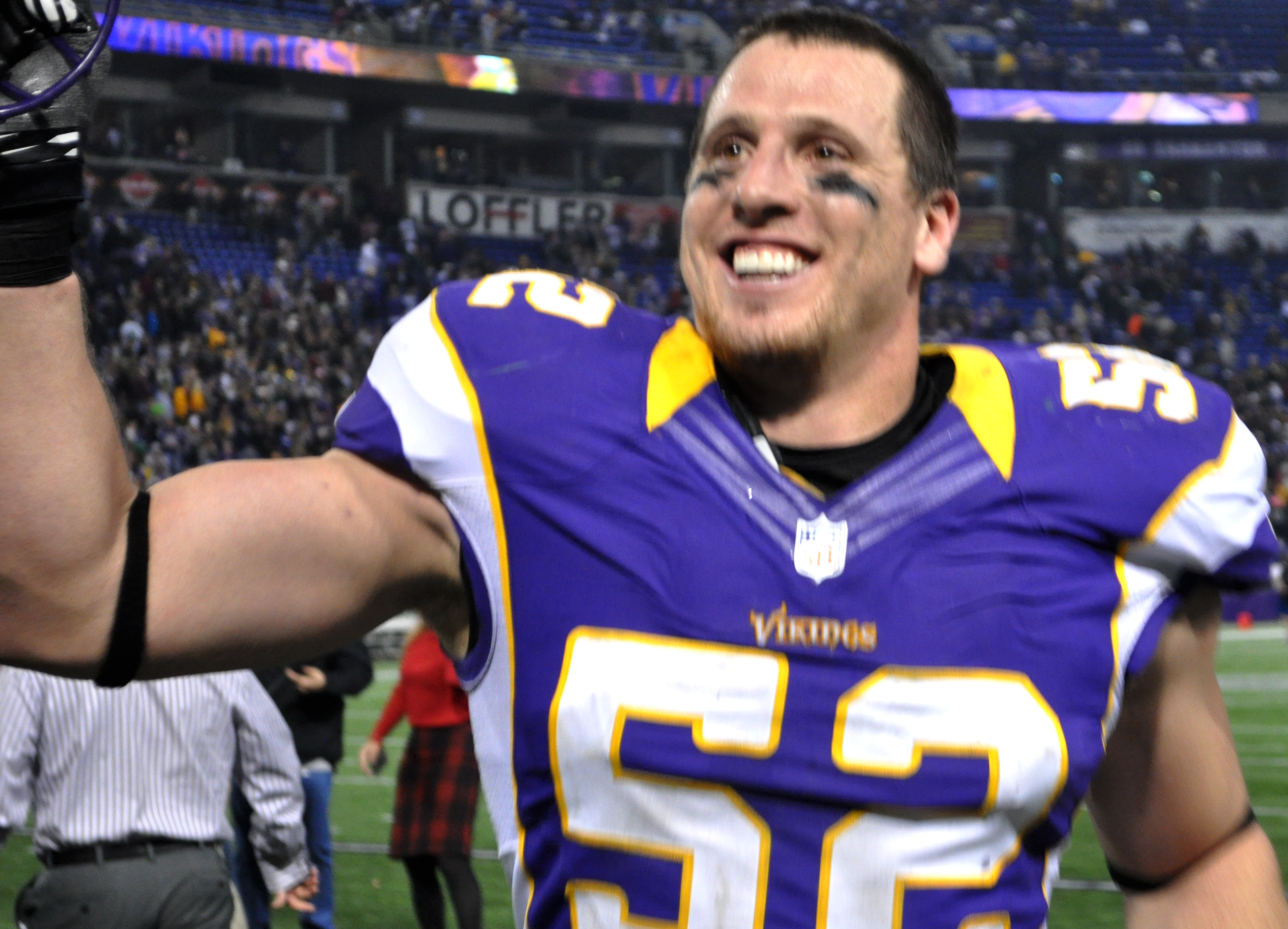 Chad Greenway after the 12-30-2012 match vs. Green Bay